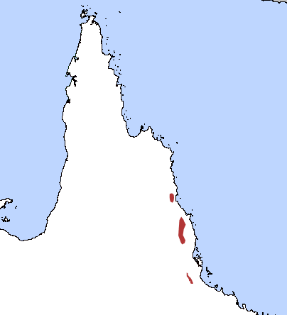 The Rusty Antechinus's Distrobution.